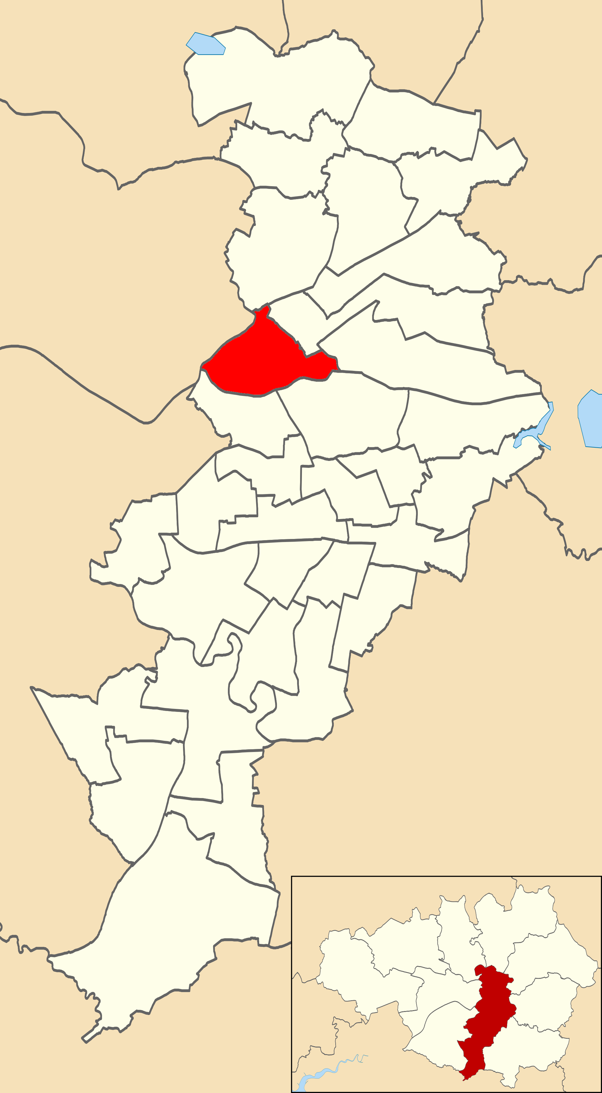 Map showing location of City Centre ward within Manchester City Council.